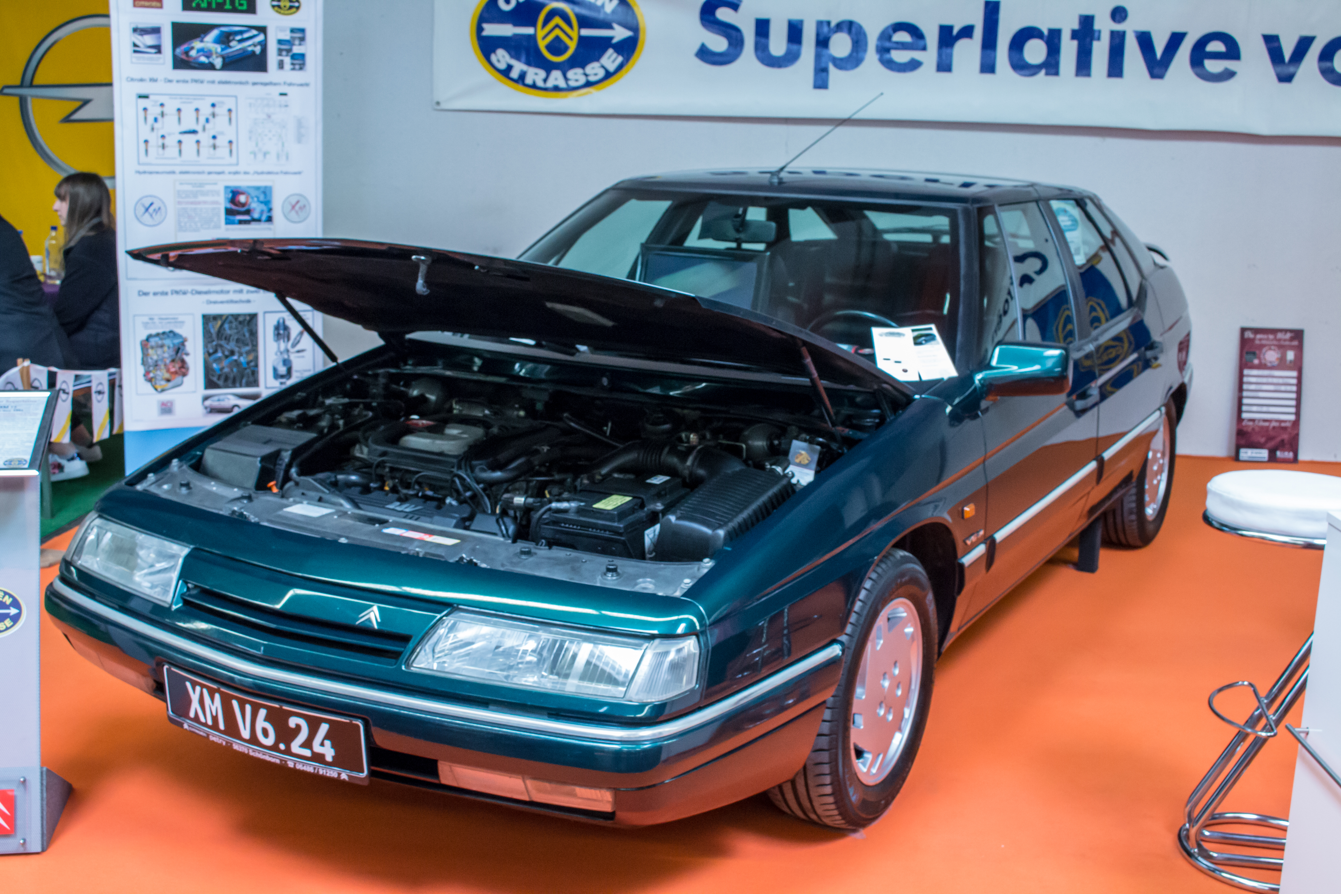 Citroën XM at Techno-Classica 2018, Essen